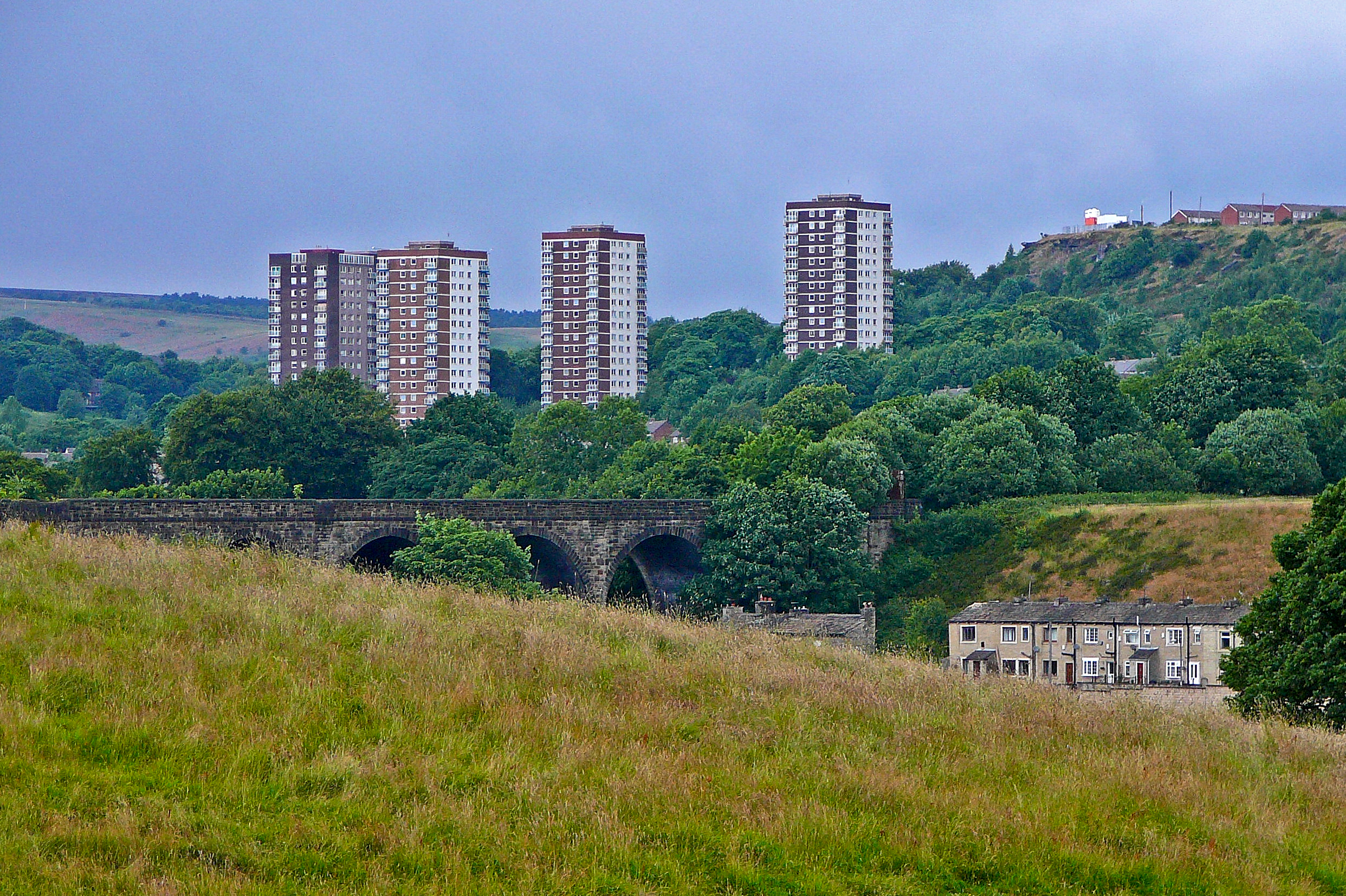 Halifax. The Wheatley Viaduct seen here carried the short-lived 'High-Level line" between Holmfield and Halifax St Paul's